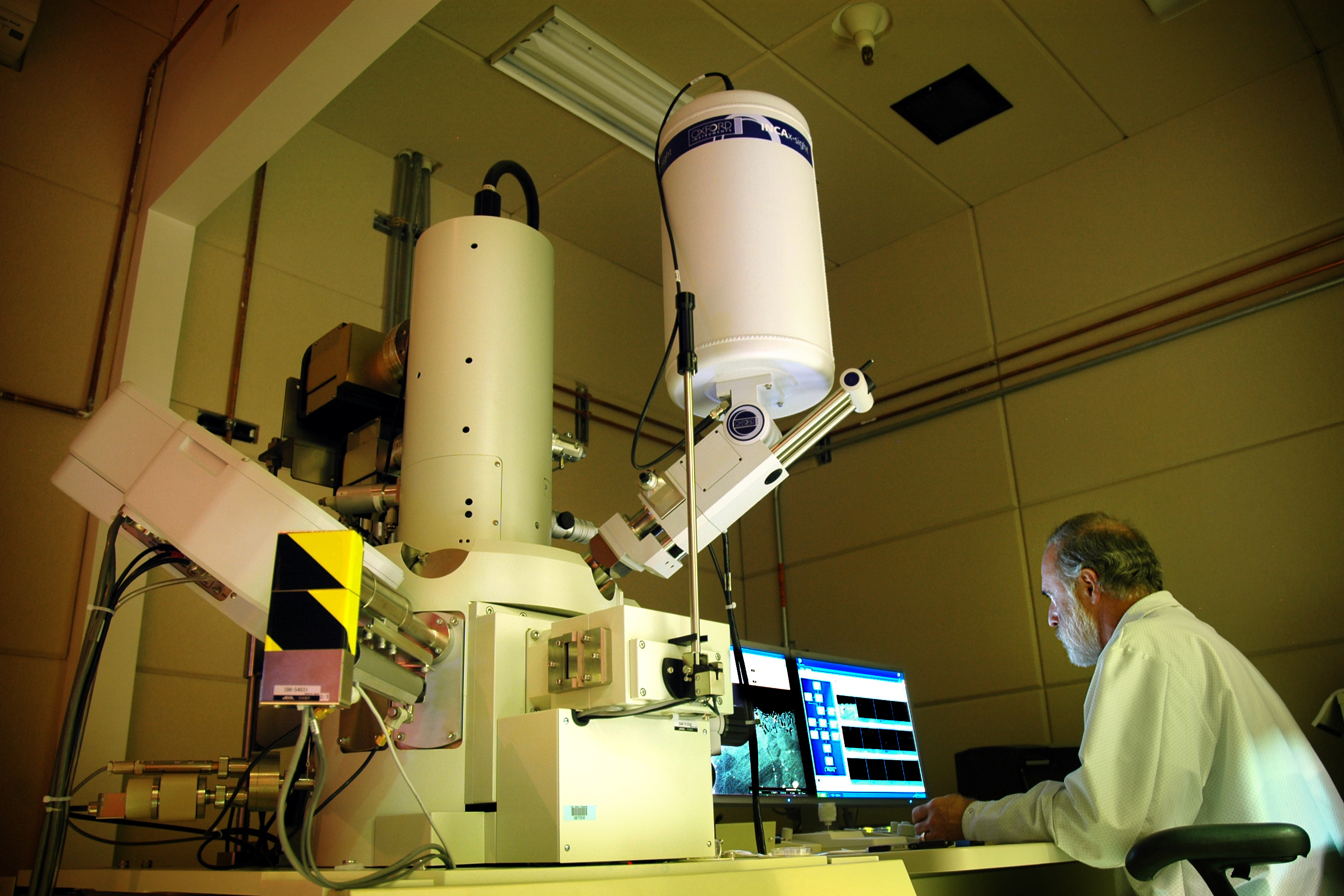 Research being carried out at the Microscopy lab of the Idaho National Laboratory. This photo was taken on July 28, 2006 using a Nikon D70. For more information about INL's research projects and career opportunities, visit the lab's facebook site.